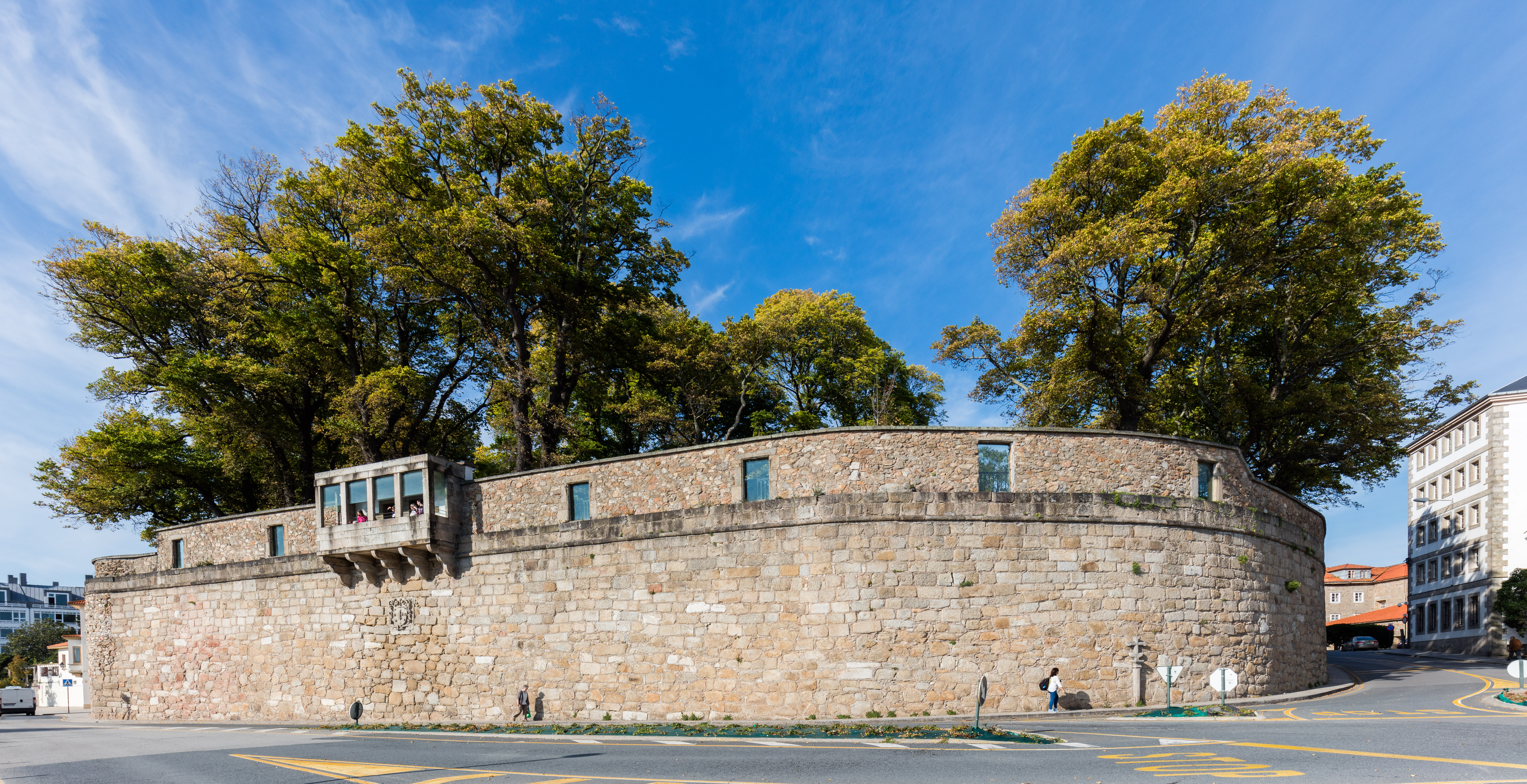 Walls, La Coruña, Spain